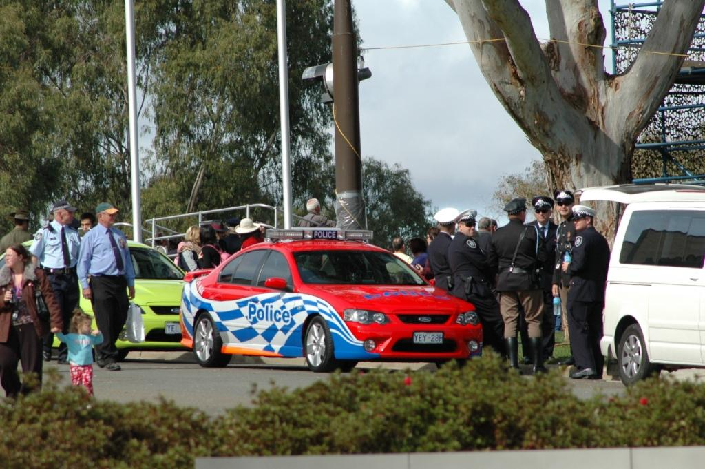 Vehicle and officers of the Australian Federal Police present at the 2008 National Anzac Day service ceremony at the Australian War Memorial, Canberra.